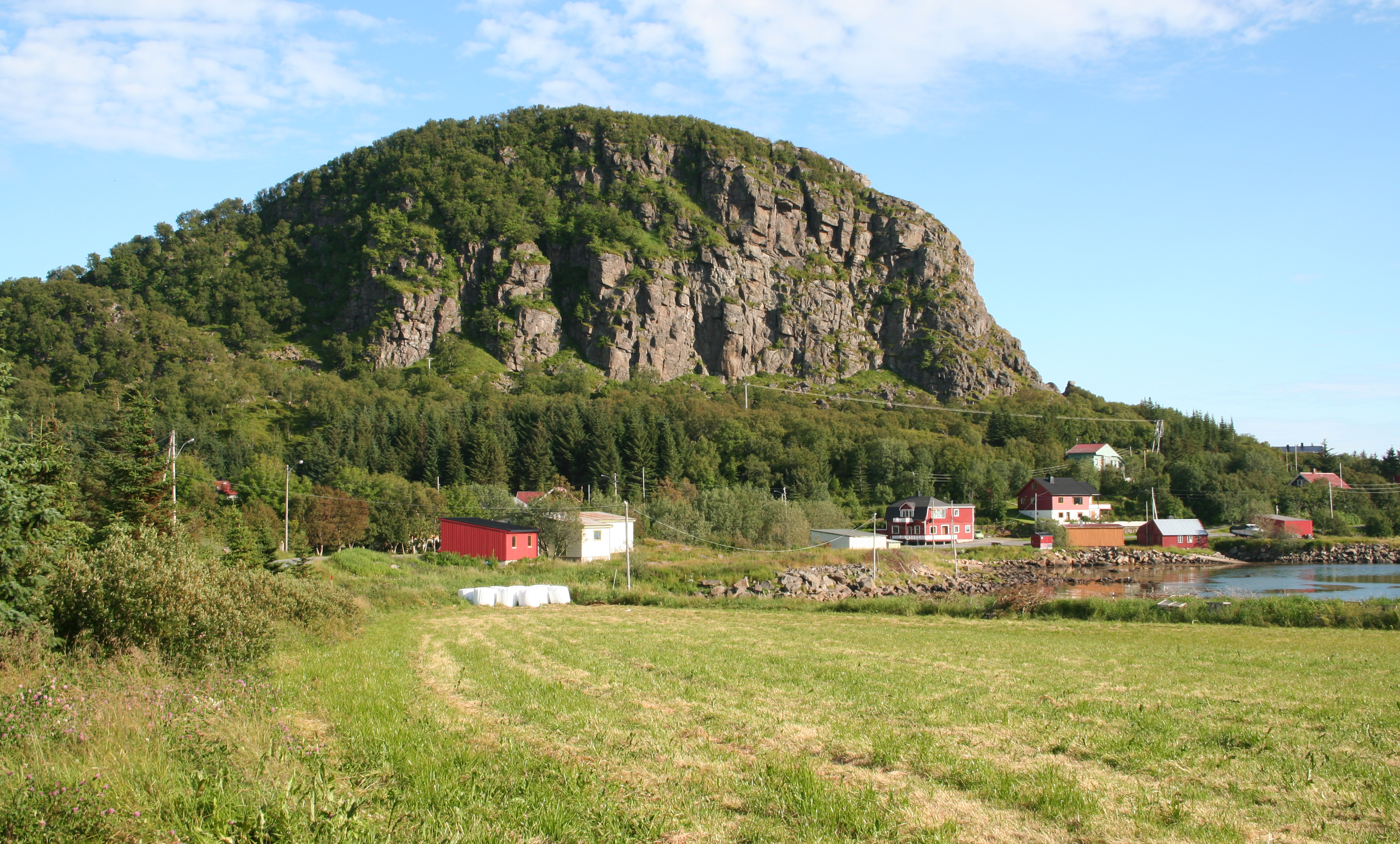 Klubben mountain near Steine in Bø, Nordland, Norway